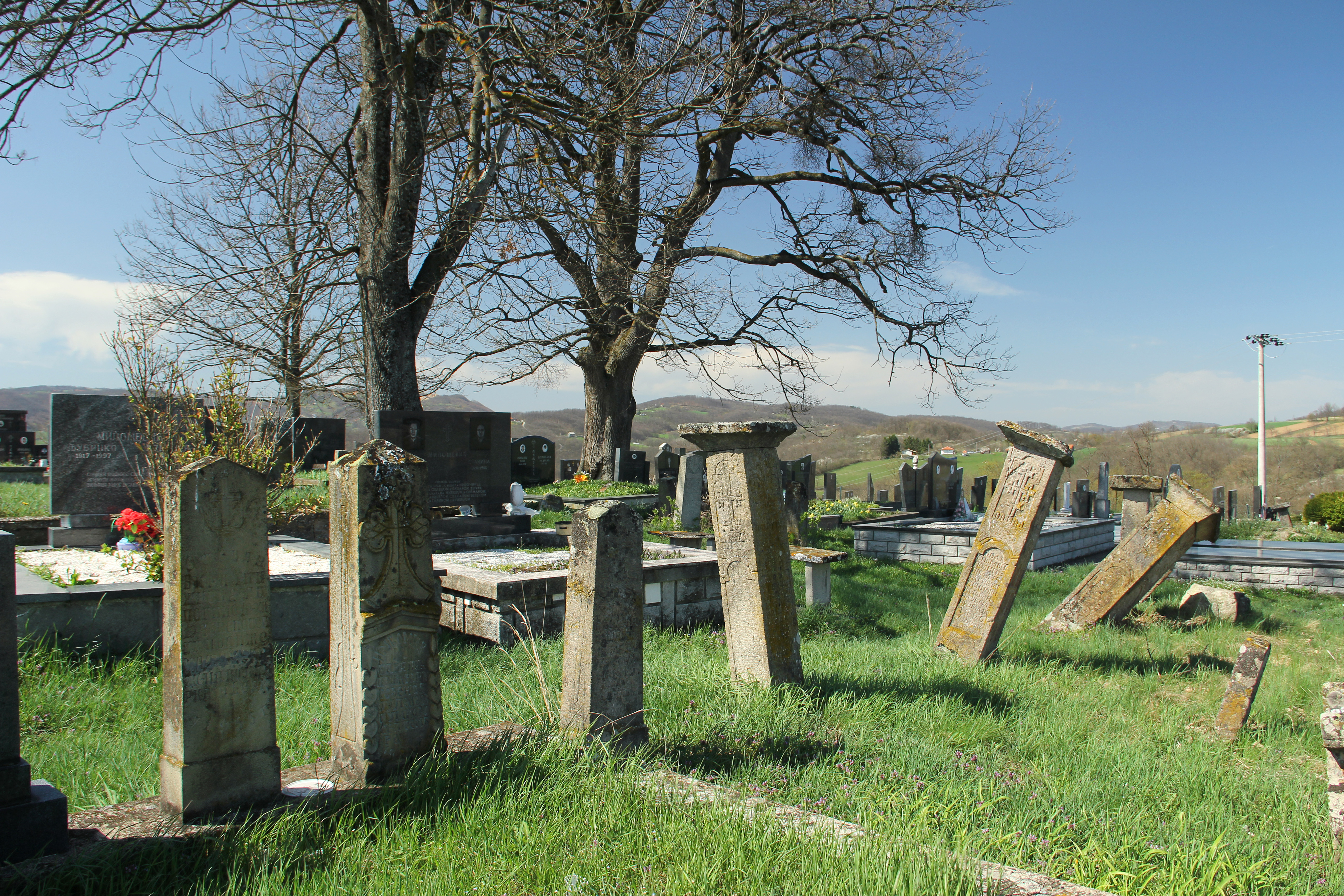 Old gravestones at the cemetery in the village of Sarani (the municipality of Gornji Milanovac), Serbia.